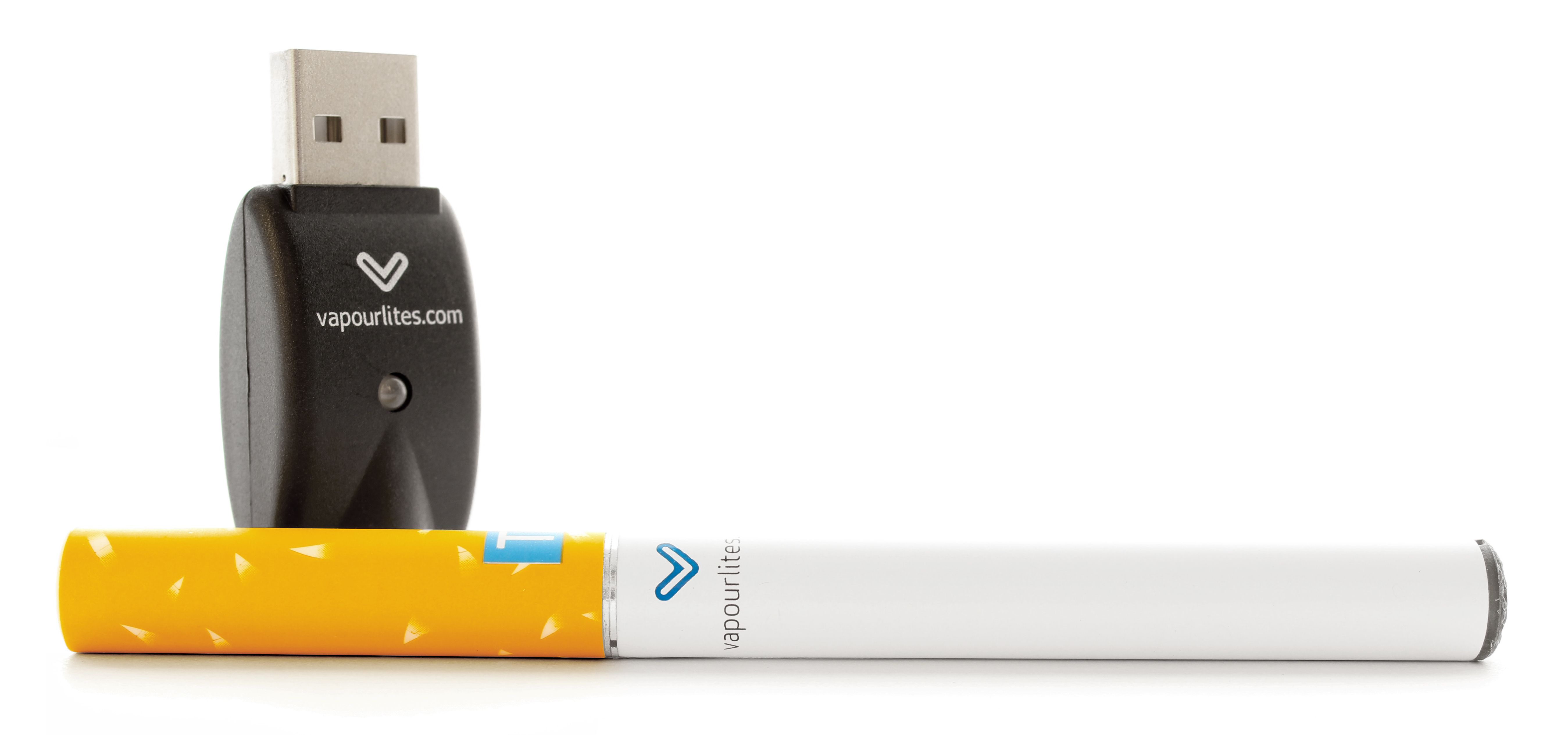 Vapourlites electronic cigarette battery and cartomizer. This image is released under Creative Commons. If used, . See more Vapourlites VL4 details here.